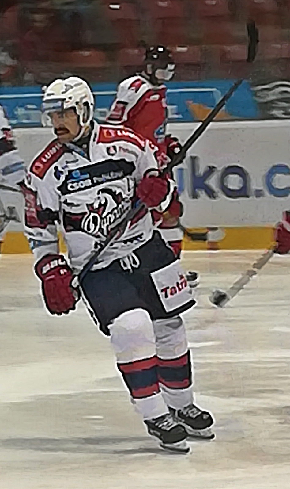 HC Olomouc - HC Dynamo Pardubice